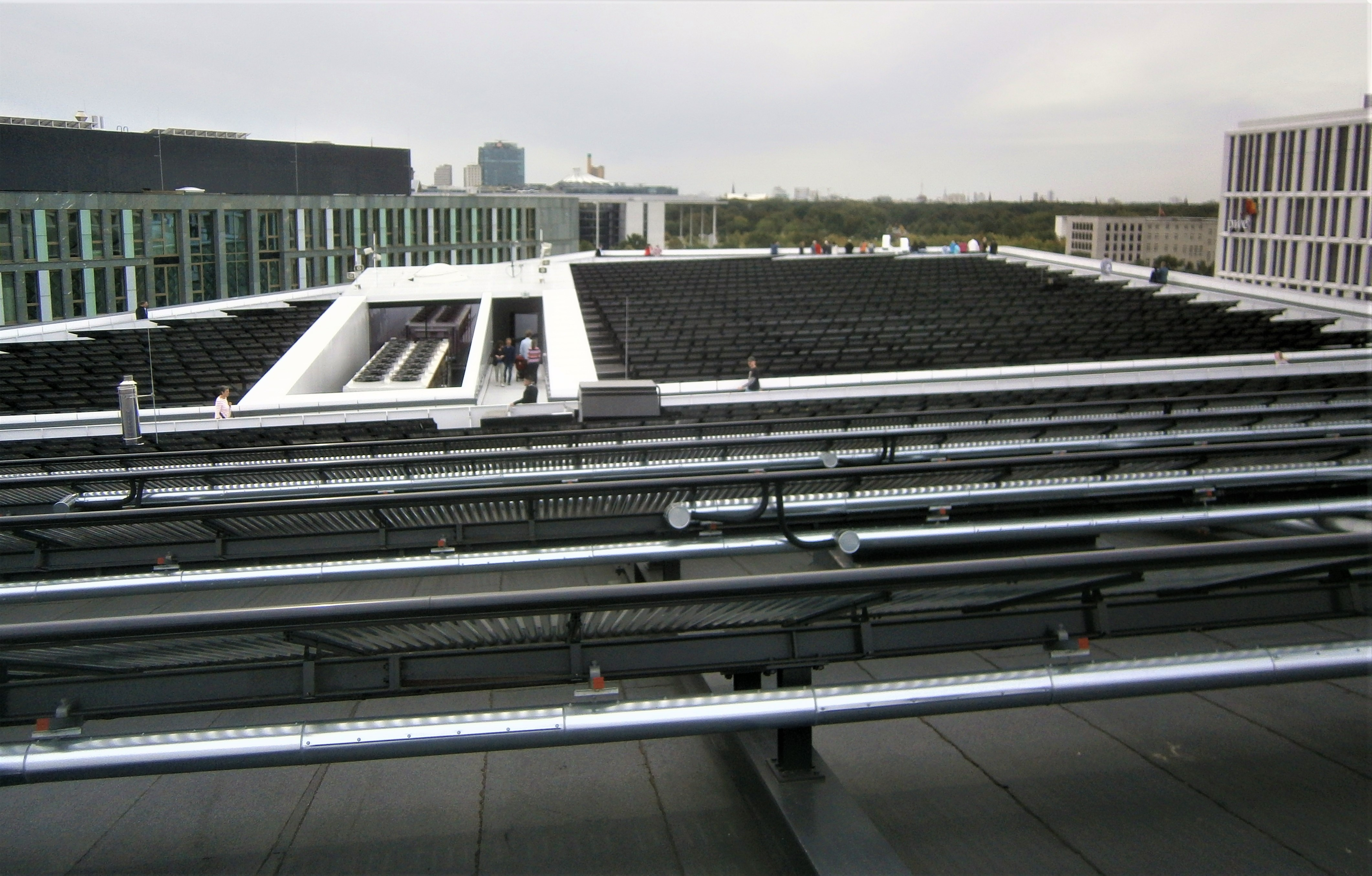 The roof of the "Futurium" - the House of Future - in Berlin-Mitte.